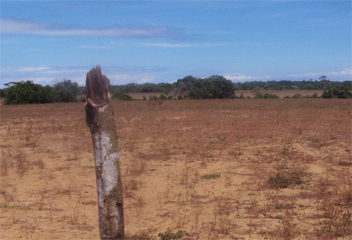 Pastureland for cattle near Las Lajas, Chiriquí, Panama.